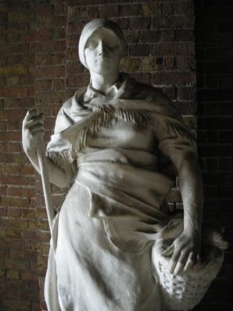 Alfred Turner's sculpture in Fishmongers' Hall